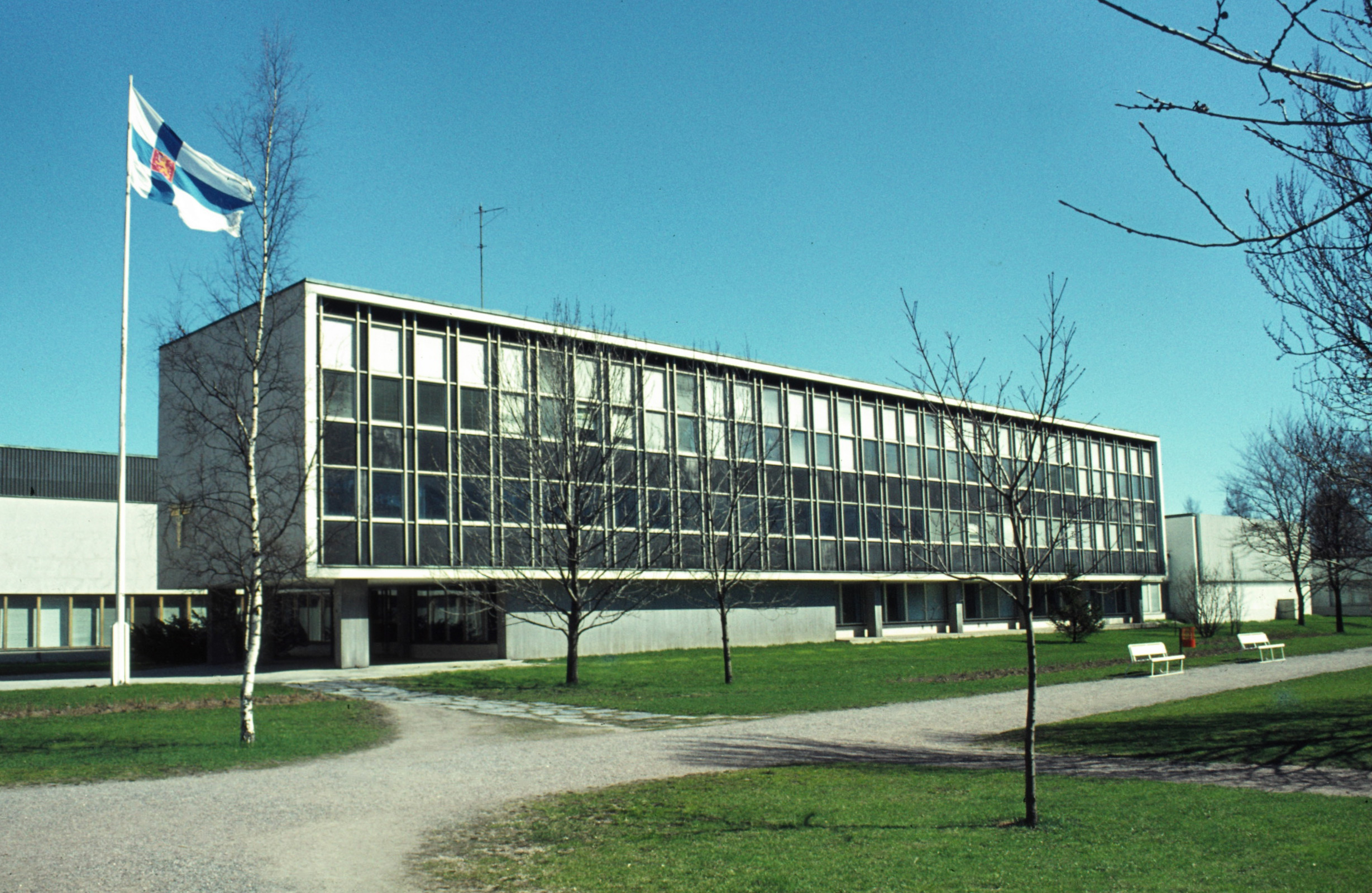 Turku School of Economics (now part of Turku University) in 1978 before the construction of various annexes in the 1980s and 1990s. Architect Aarne Ehojoki, 1958.